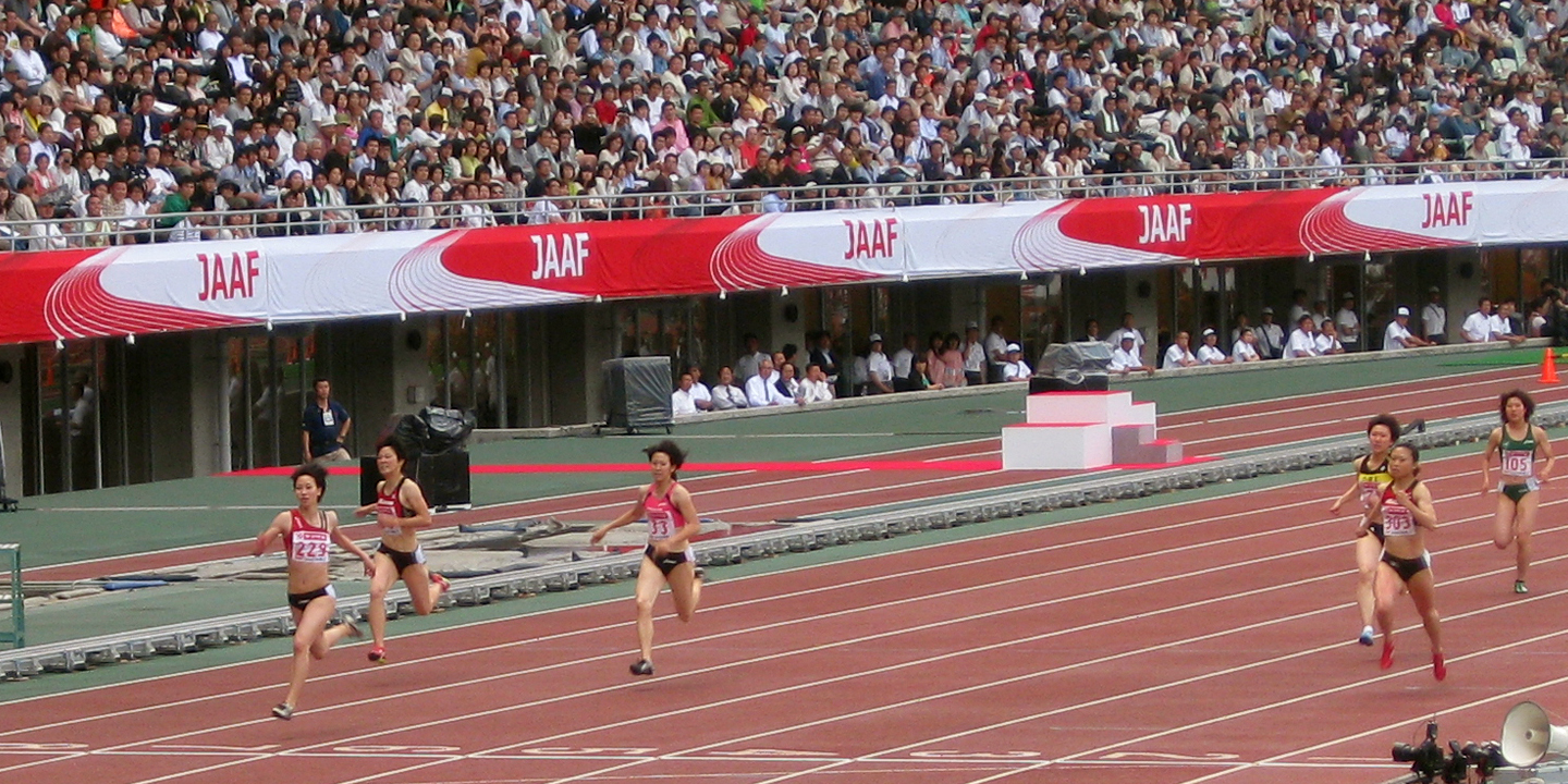 96th Japan Championships in Athletics - This photo was taken on 9 June, 2012 at Nagai Stadium, Osaka.